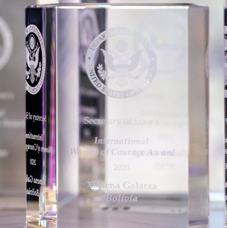 The International Women of Courage Awards are seen during a ceremony Wednesday, March 4, 2020, at the U.S. State Department in Washington, D.C. (Official White House Photo by Andrea Hanks)